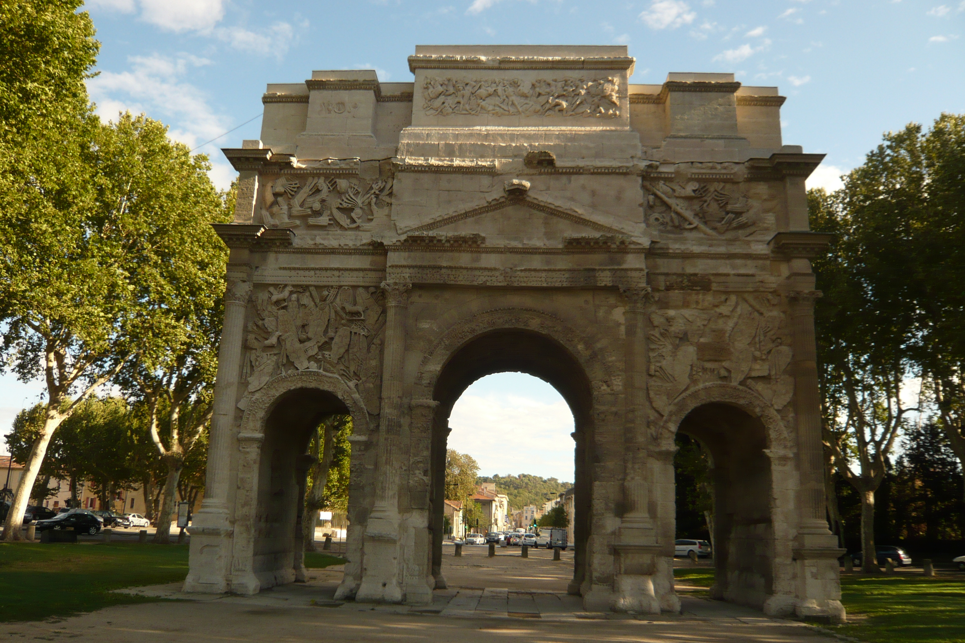 Triumphal Arch of Orange, France .